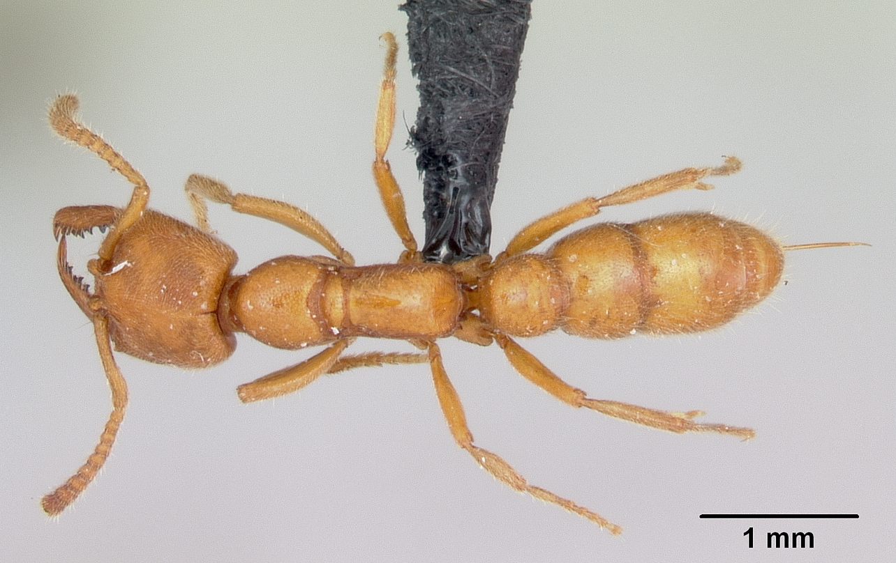 Dorsal view of ant Amblyopone pallipes specimen casent0172588.